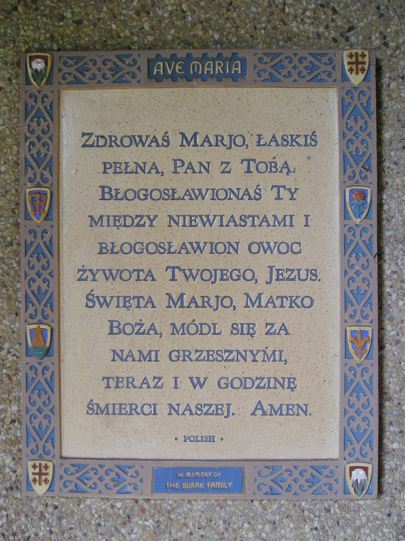 The inscription of the text "Hail Mary" in Polish, Washington DC, Franciscan Monastery.